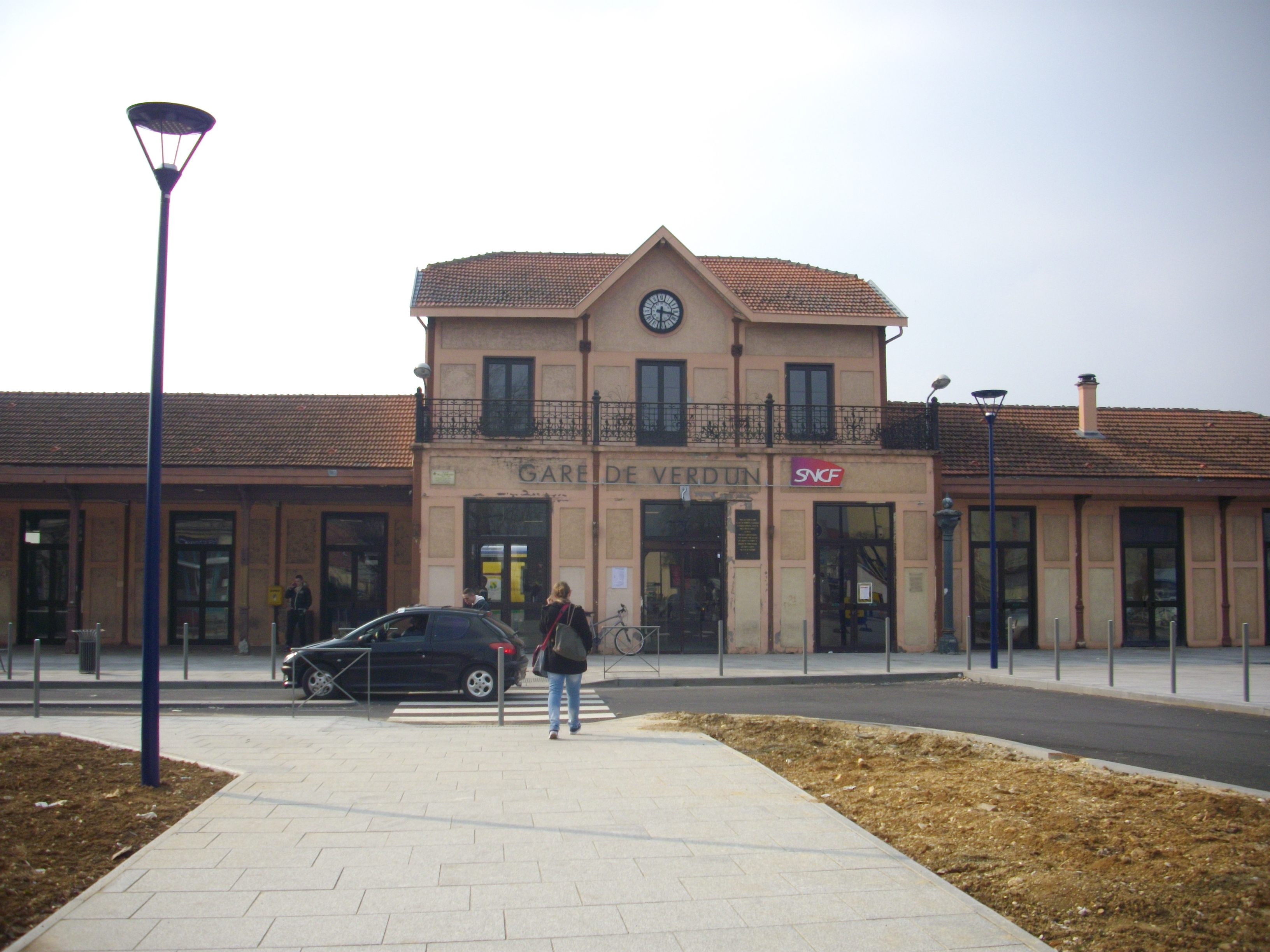 Verdun (Meuse, France) train station